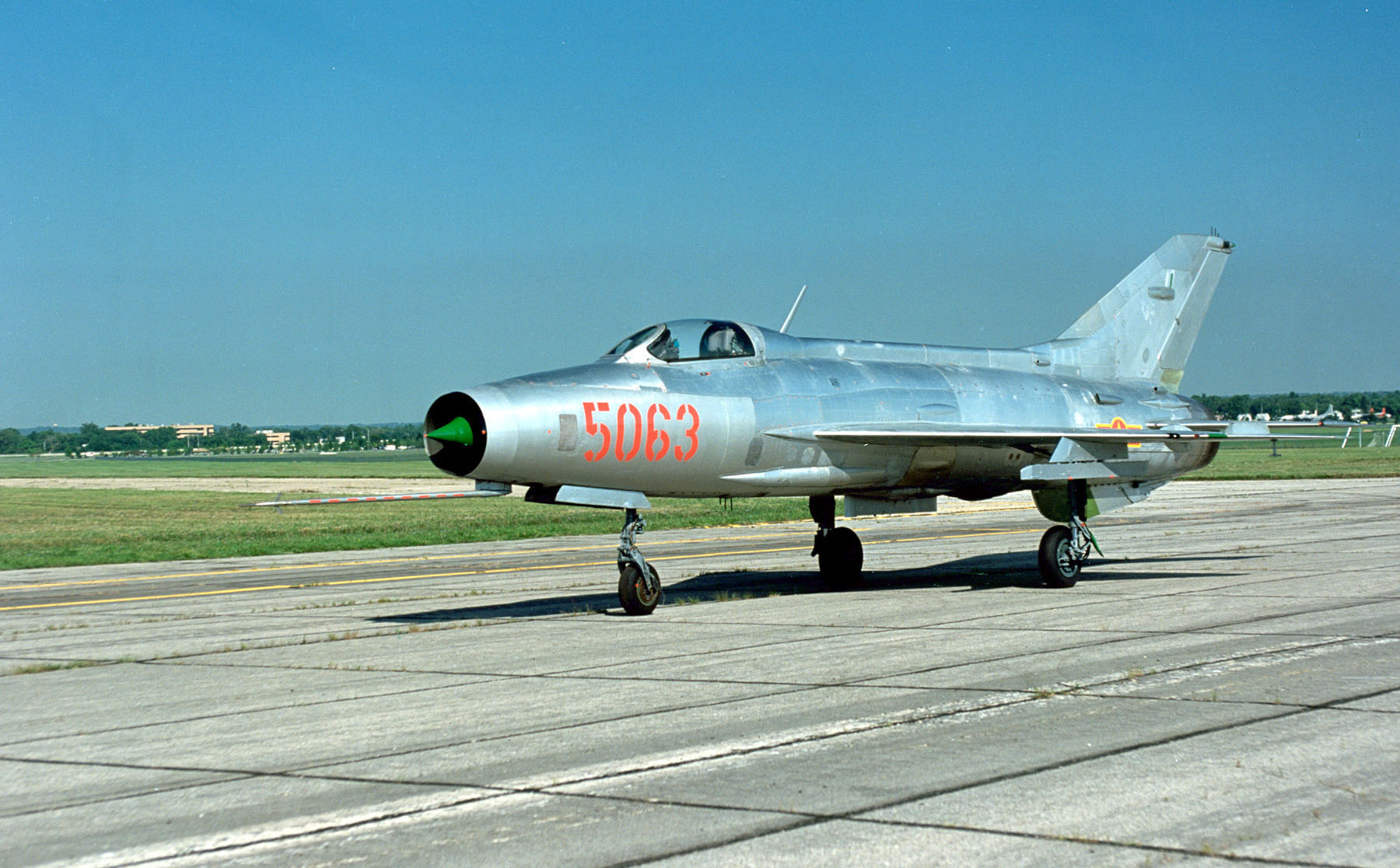 A Mikoyan-Gurevich MiG-21PF "Fishbed" in Vietnamese colours at the National Museum of the United States Air Force.